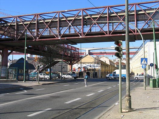 Landscape